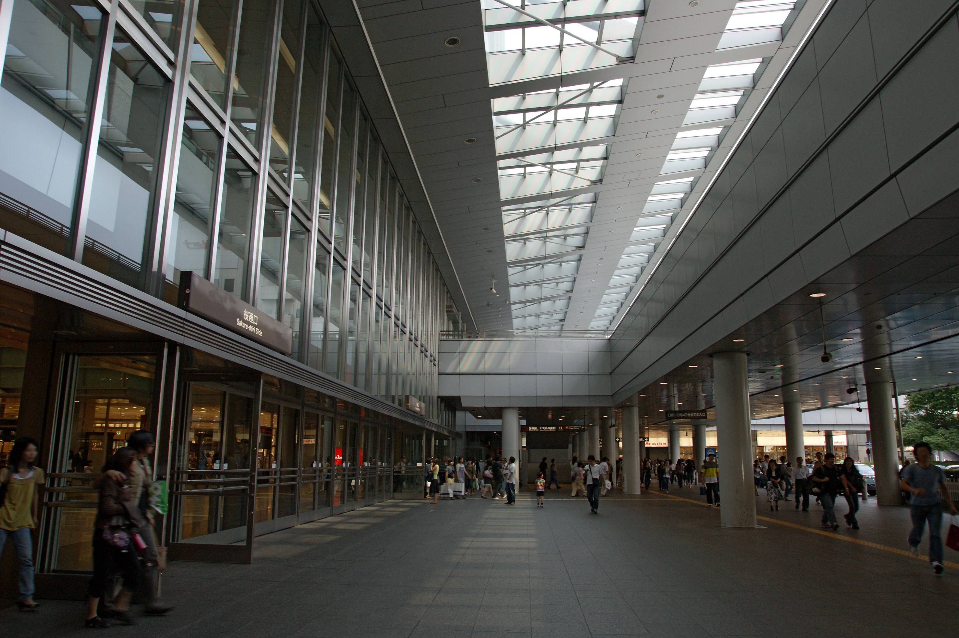 Nagoya Station in Nagoya, Aichi prefecture, Japan